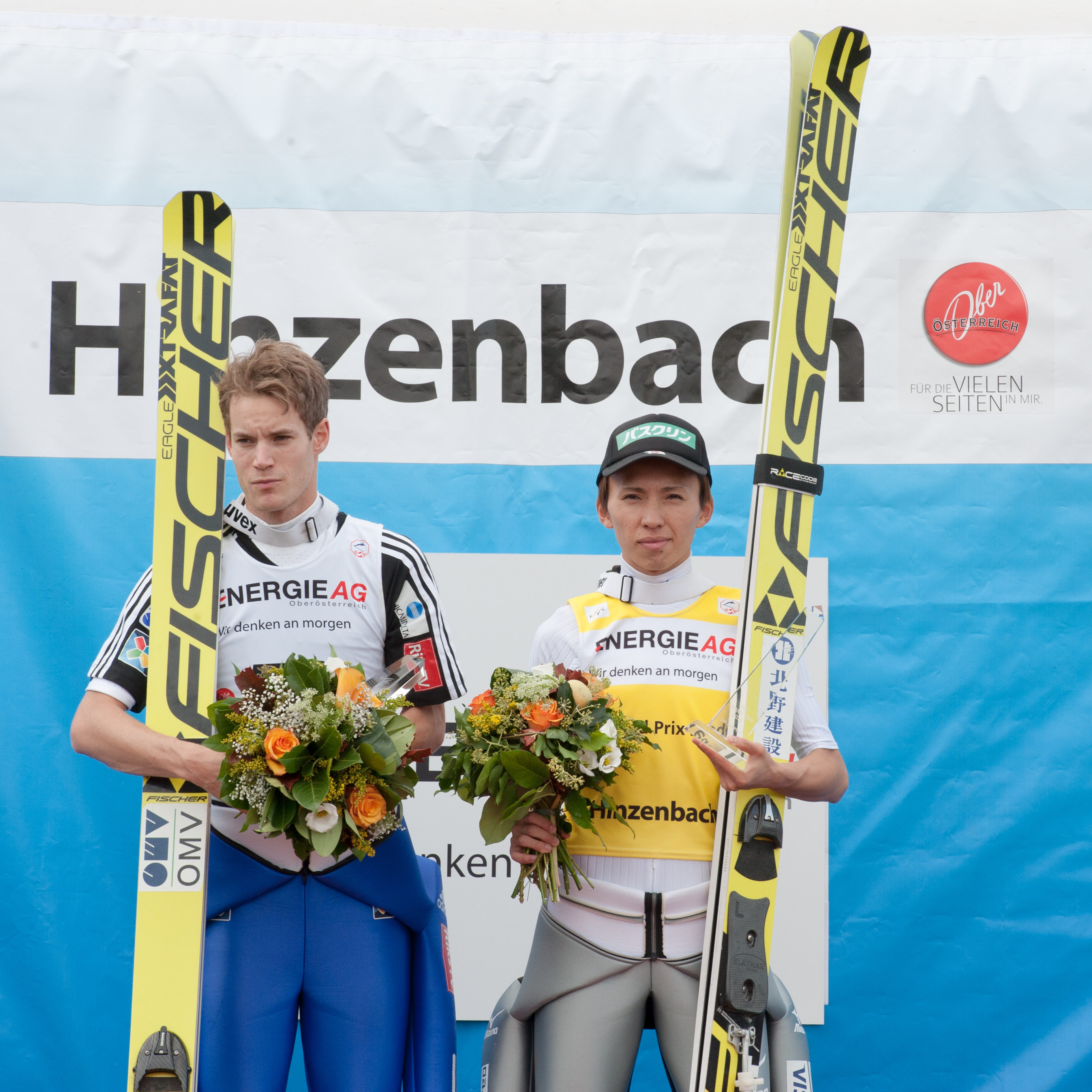 Fis Ski Jumping Summer Grand Prix in Hinzenbach, Upper Austria, 2015-09-29